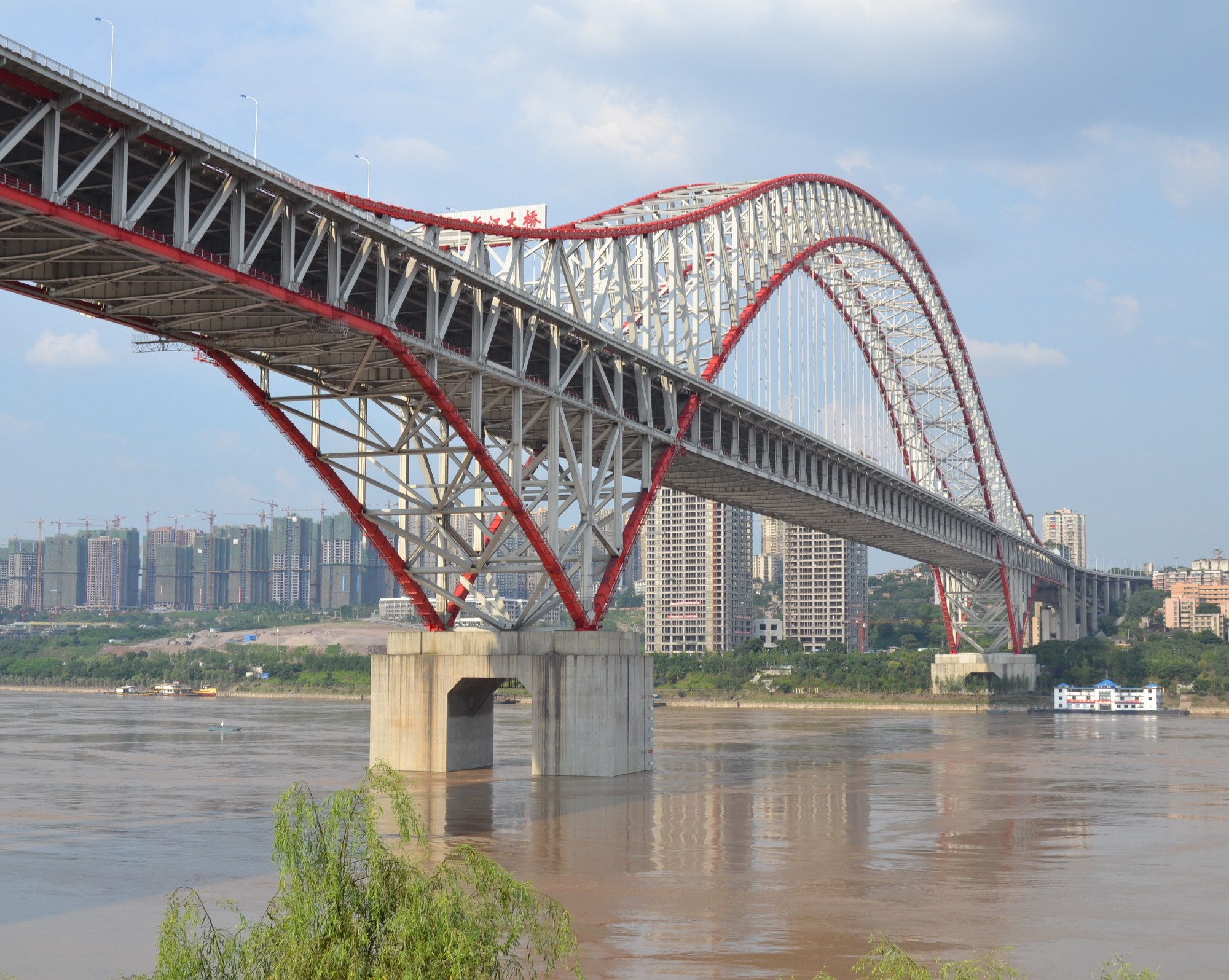 The Chaotianmen Bridge over the Yangtze River in Chongqing City, China